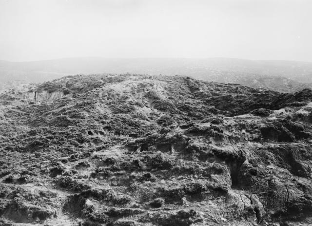 Old No 3 Outpost taken from No 2 Outpost, looking east. Chunuk Bair is on the skyline. This hill was taken by the New Zealand Mounted Rifles on 29 May 1915 and was held for a couple of days and then driven off. It was recaptured again on the night of 6 August 1915 by the New Zealand Mounted Rifles. One of a series of photographs taken on the Gallipoli Peninsula under the direction of Captain C E W Bean of the Australian Historical Mission, during the months of February and March, 1919.